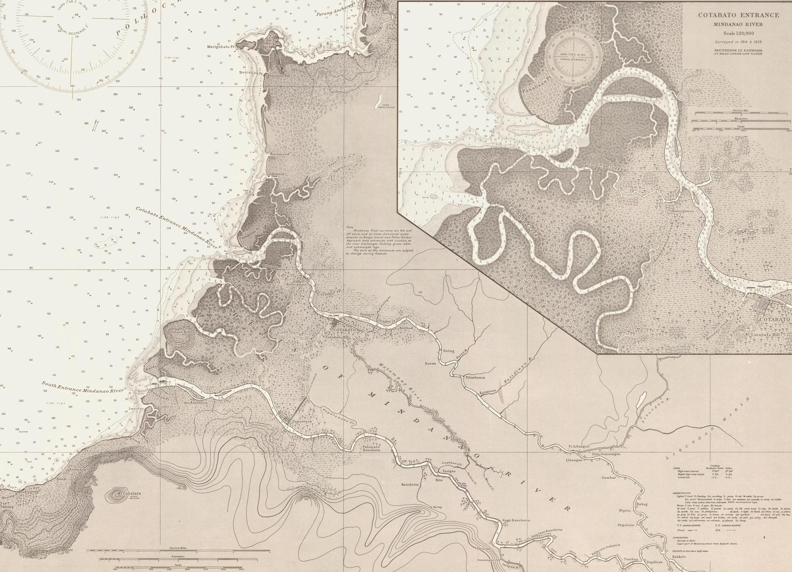 Map of the delta of the Mindanao River also known as the Rio Grande de Mindanao in Cotabato, Philippines Tagalog: Mapa ng delta ng Rio Grande de Mindanao, Cotabato, Pilipinas Cebuano: Mapa sa delta sa Rio de Grande de Mindanao, Cotabato, Pilipinas